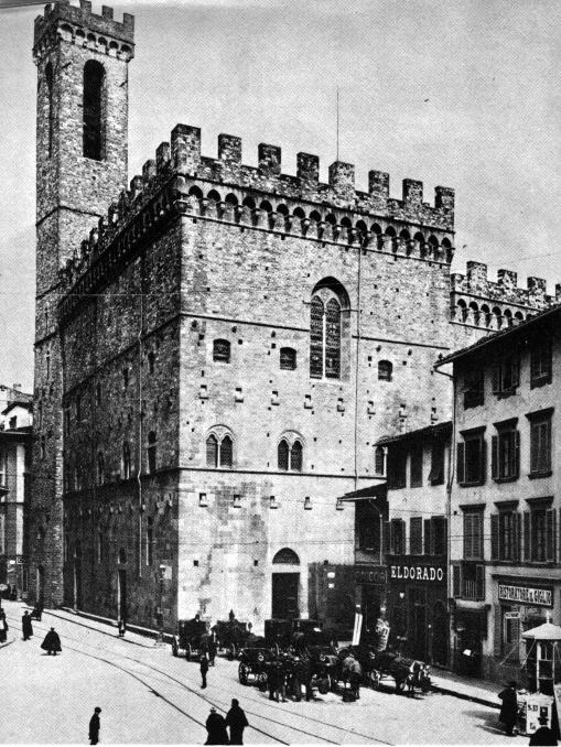 Italiaanse wp (del) (cur) 19:05, 7 July 2004 . . OldakQuill (96751 bytes) (The Palazzo del Podestà (or Palace of the Podestà) in Florence, Italy.)